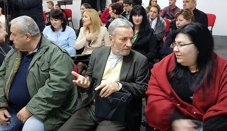 Milos Milicevic